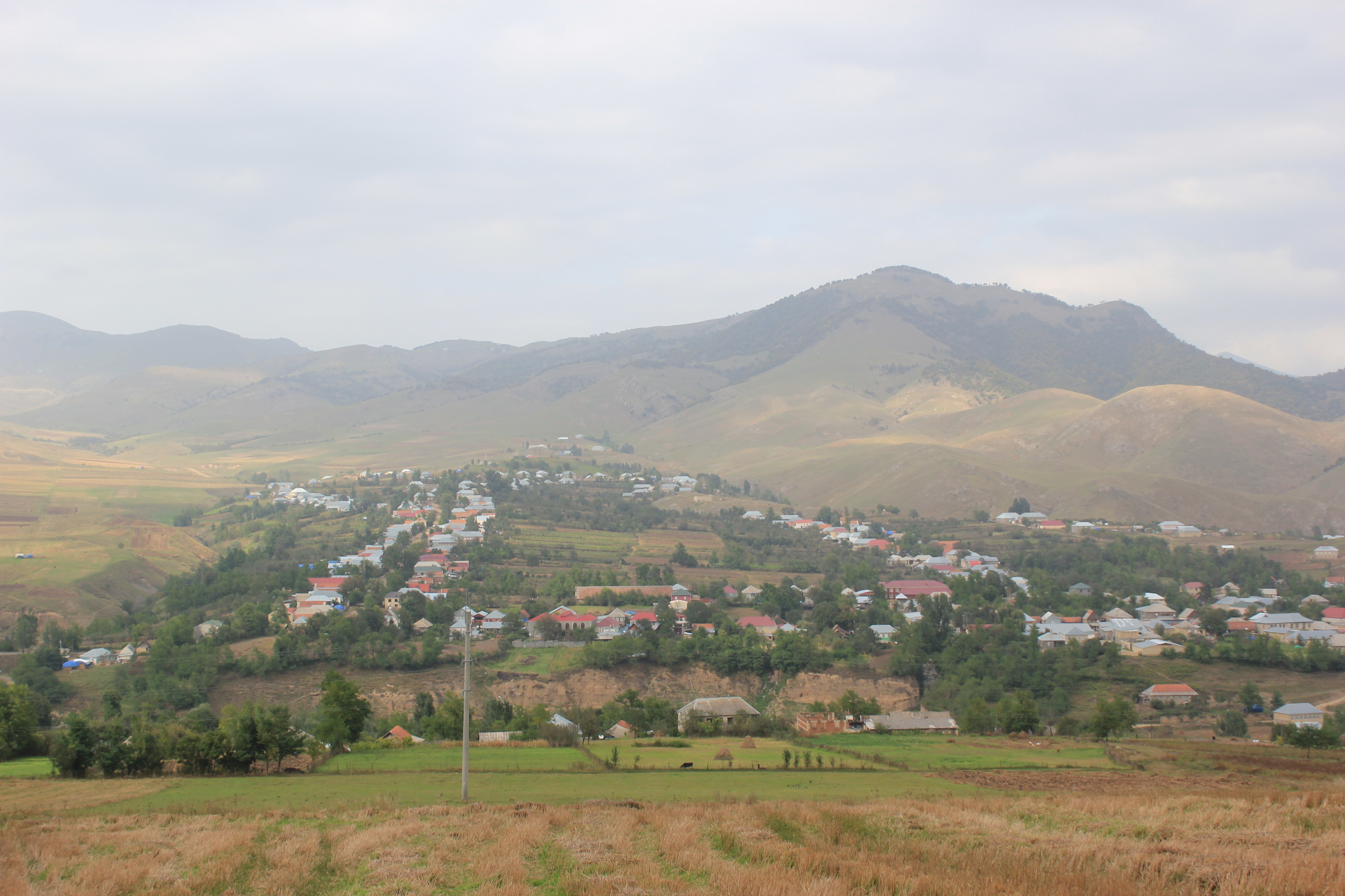 Douchobor's village Slavyanka in Azerbaijan